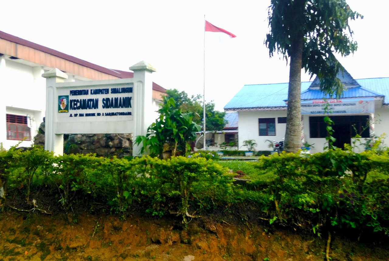 Office district of Sidamanik, Simalungun, Indonesia.